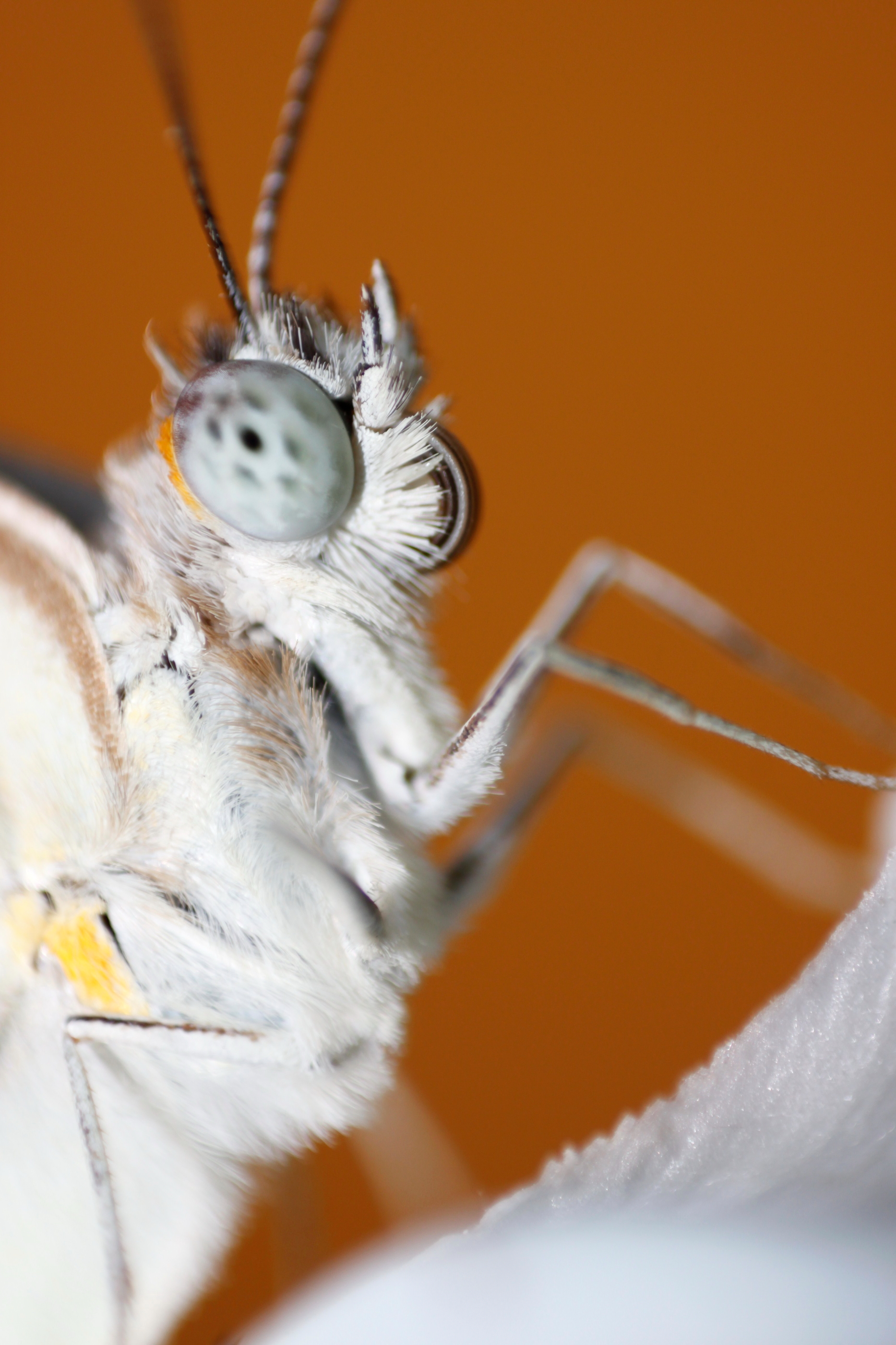 this is a manual macro of a butterfly face